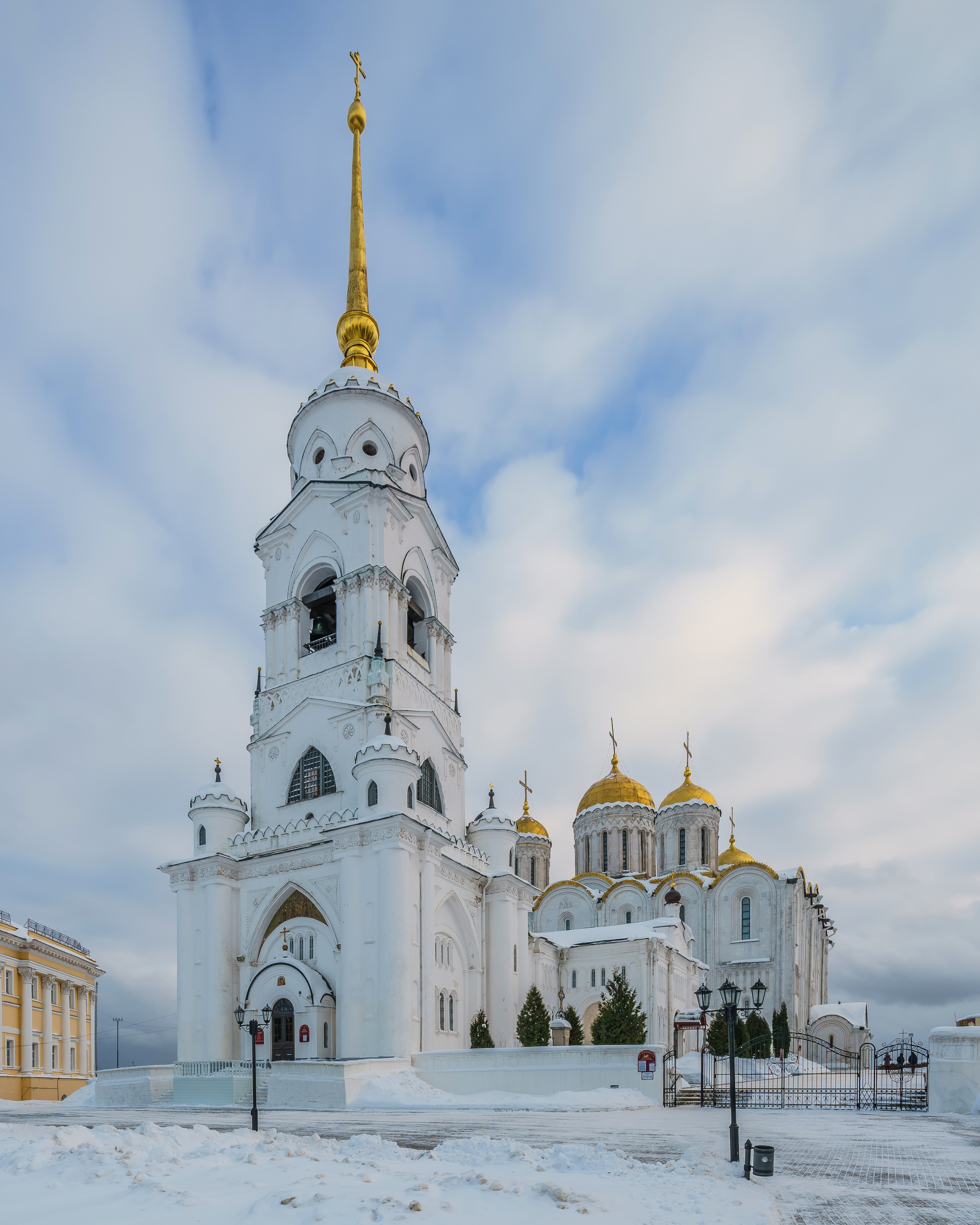 Assumption Cathedral in Vladimir, Russia